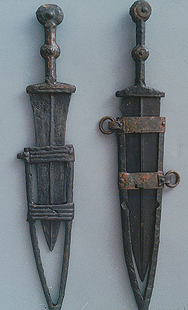 Celtiberian biglobular daggers. Museum Numantino, Soria, Spain.